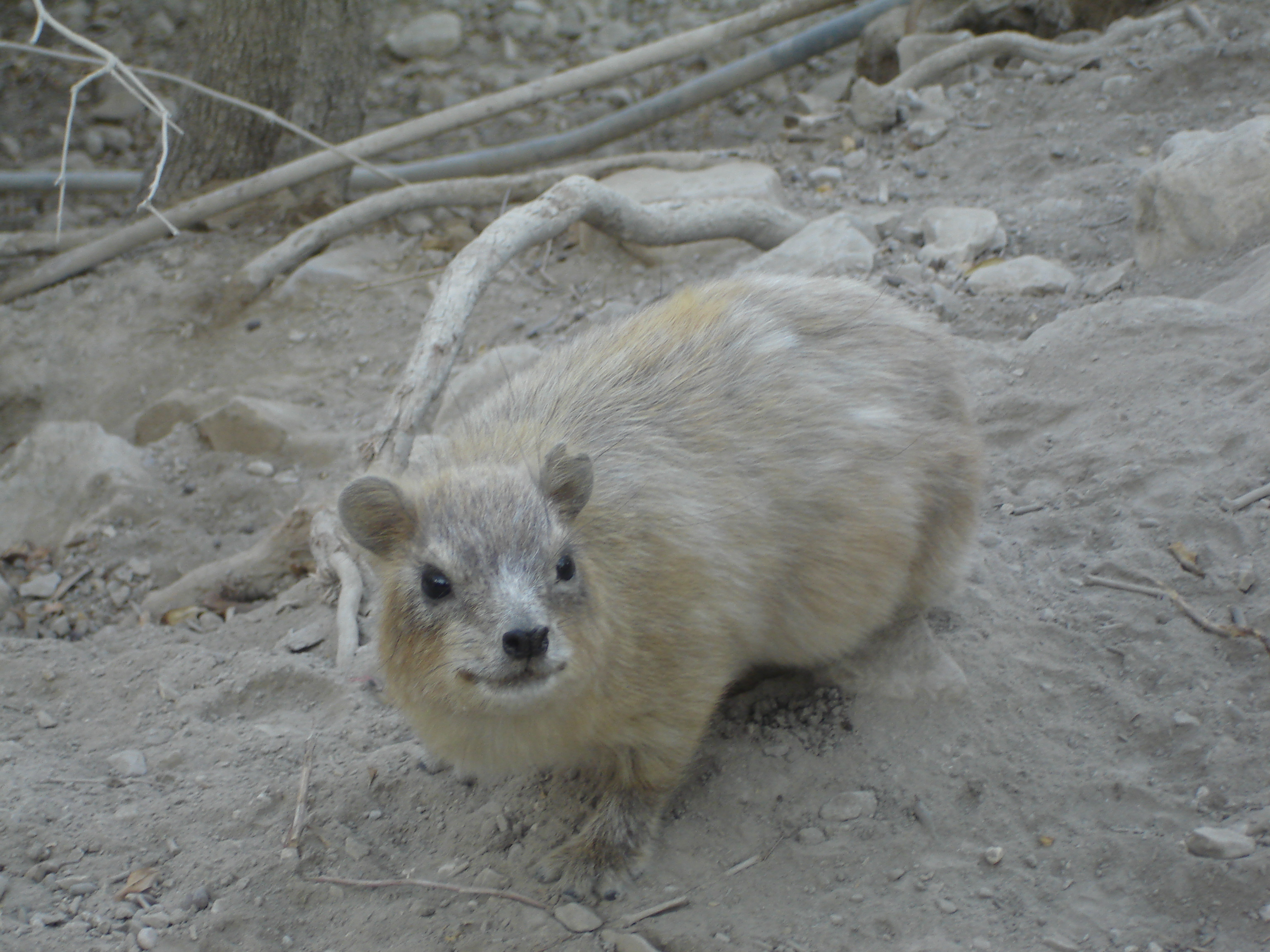 A hyrax at Ein Gedi